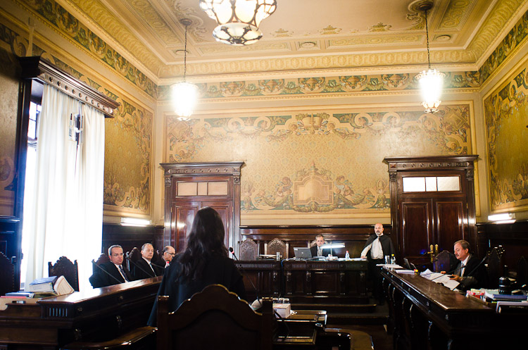 A session at the São Paulo State Courthouse for the Folha de S.Paulo v Falha de S. Paulo case.